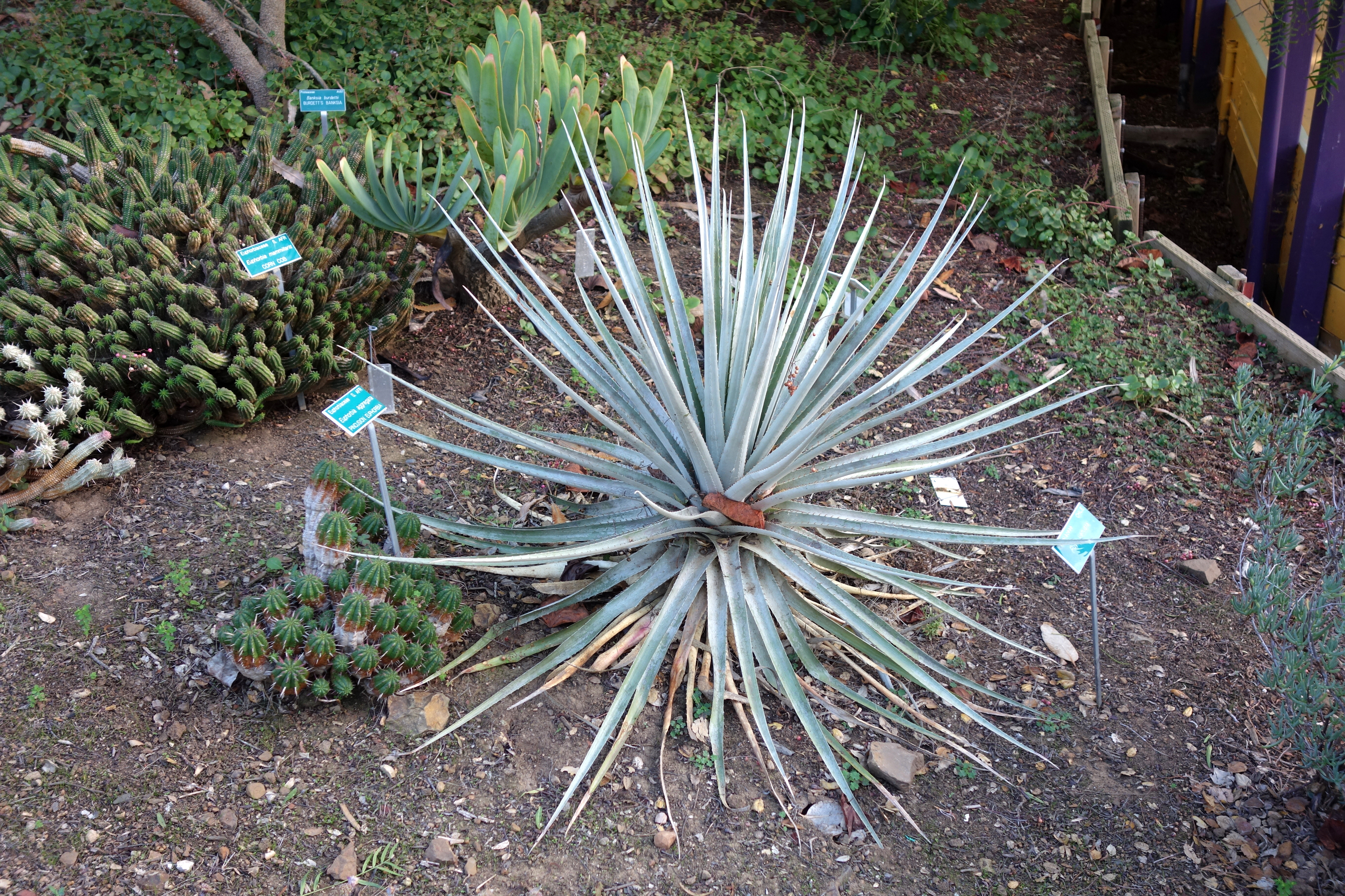 Botanical specimen in the San Luis Obispo Botanical Garden - in El Chorro Regional Park, San Luis Obispo, California, USA.